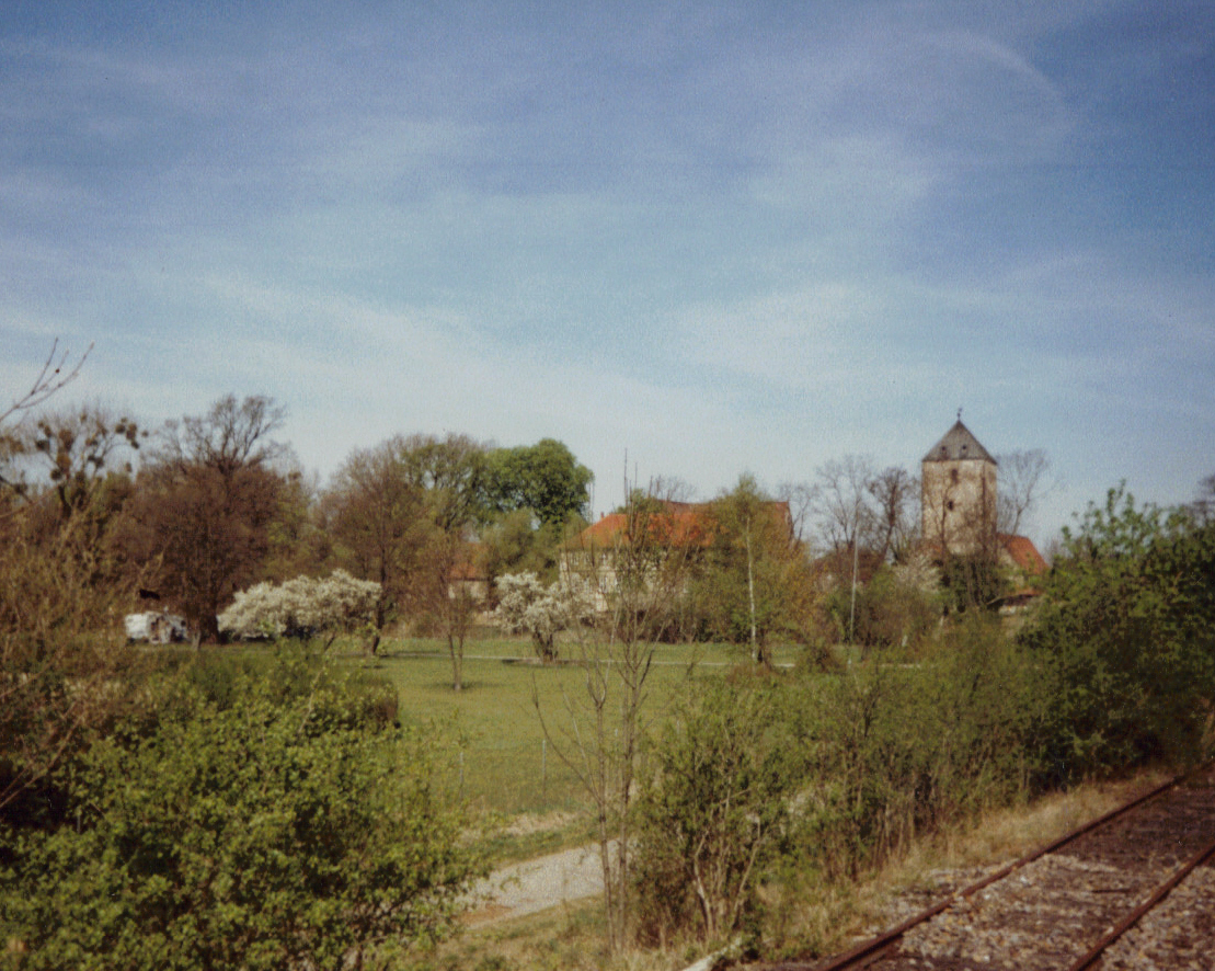 Hildesheim: Castle Steuerwald (1310-1313).